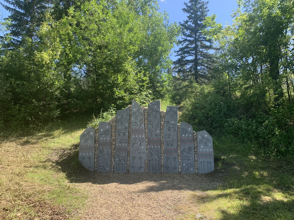 Preparing to Cross the Sacred River by Marianne Nicolson at the Indigenous Art Park ᐄᓃᐤ (ÎNÎW) River Lot 11∞